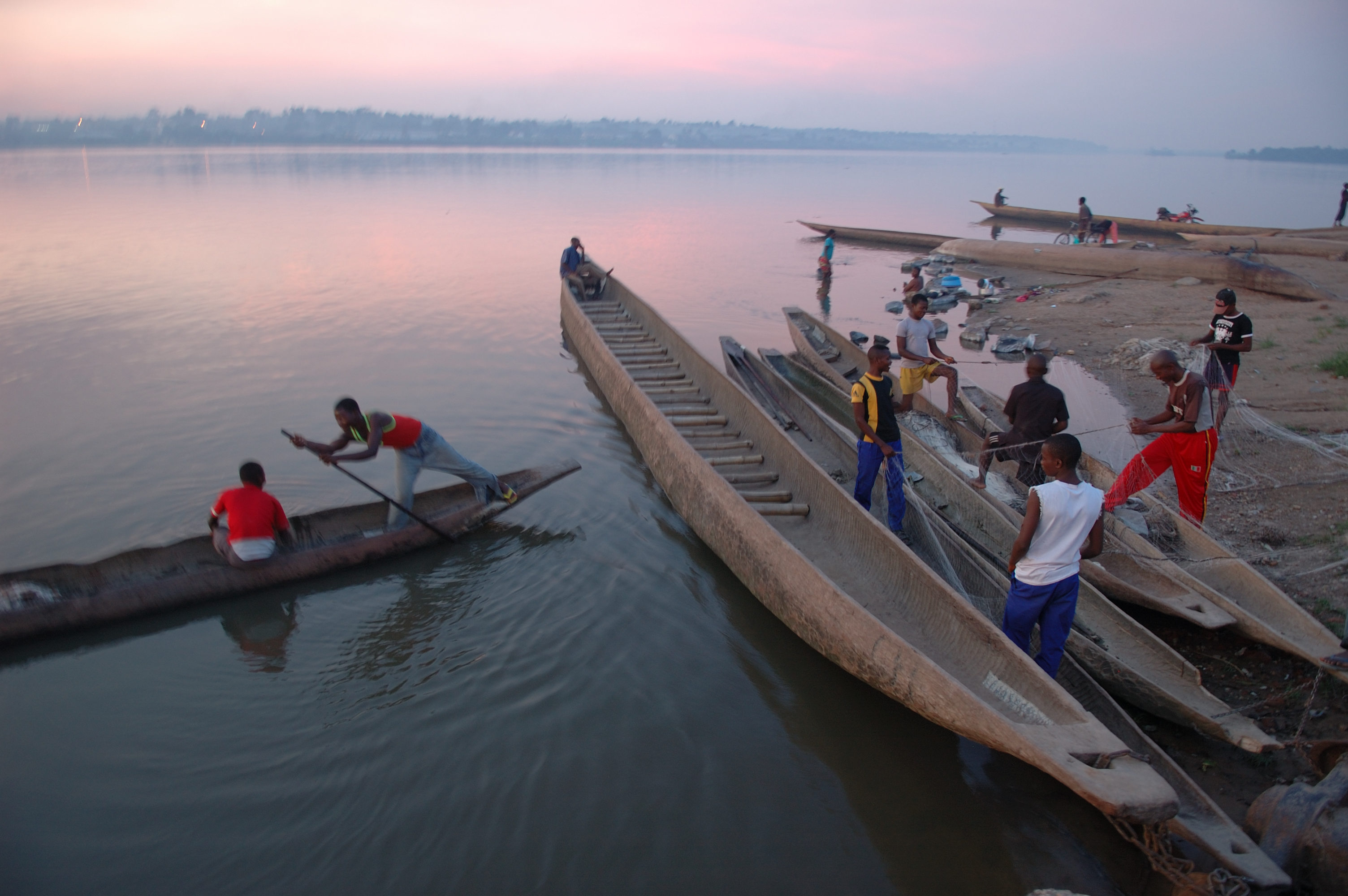 The drive back took us two and half hours and we just missed the ferry back. So we left the Land Cruiser with the driver and took a pirogue back across the Congo. The sun was setting and the water horizon sky and water melted into a pink haze.